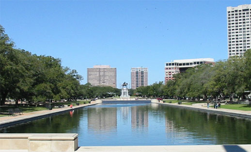 Hermann Park in Houston, Texas. Photograph by J. Williams. (Feb. 12, 2006).